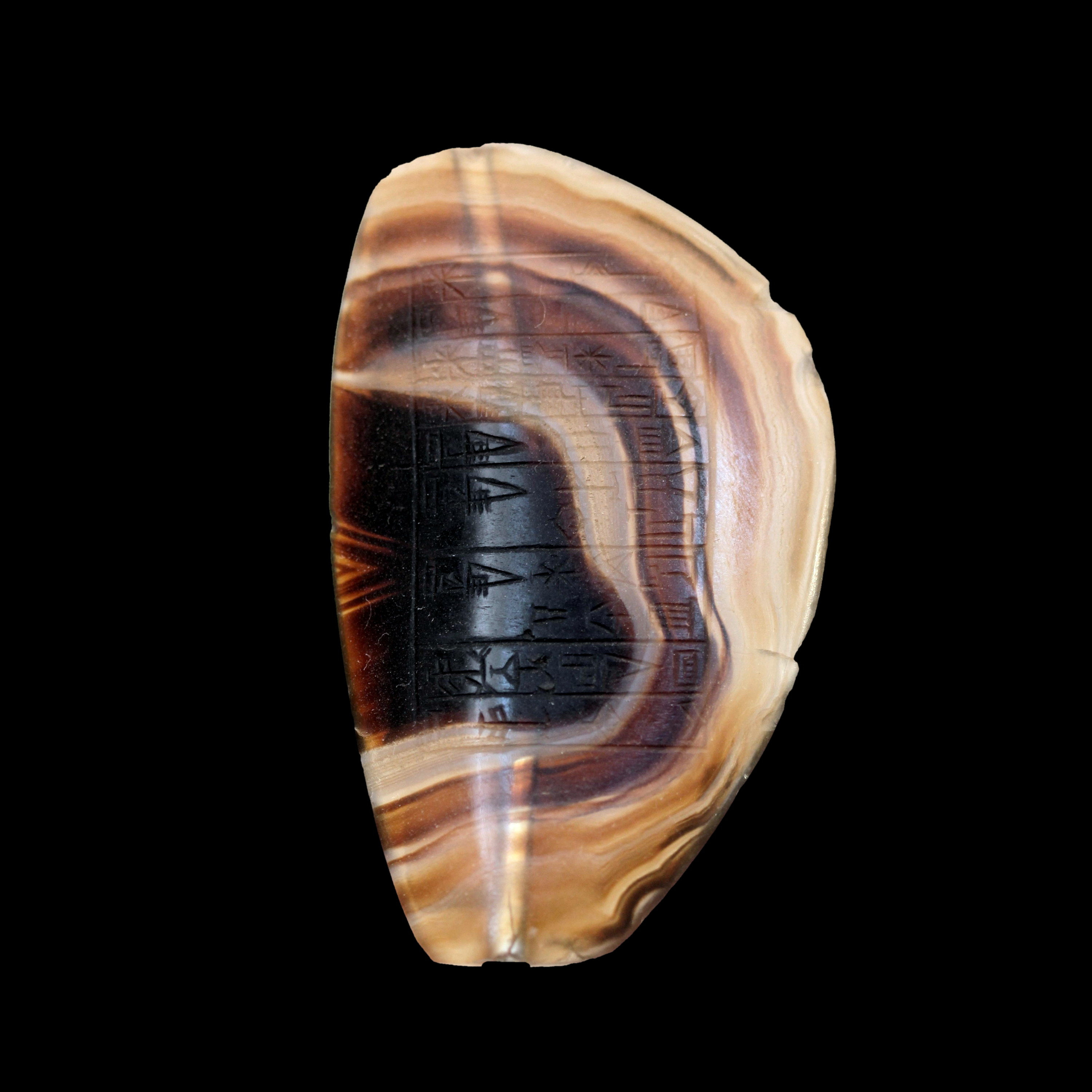 Text in Sumerian language: "To (the god) Nanna, his master, Ibbi-Sin, god of his country, strong king, king or Ur, king of the four regions, has, for his life, dedicated this bead."